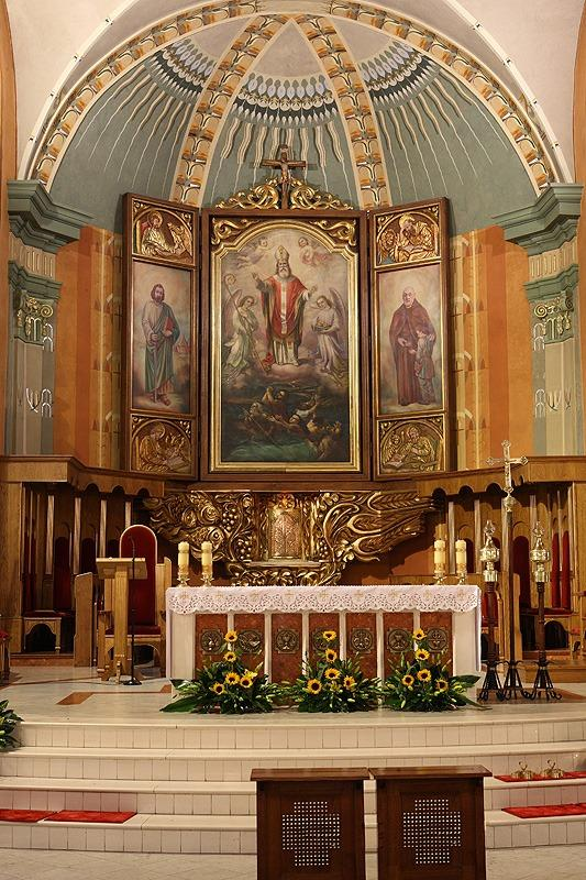 Presbytery in Cathedral of St Nicholas in Bielsko-Biała.